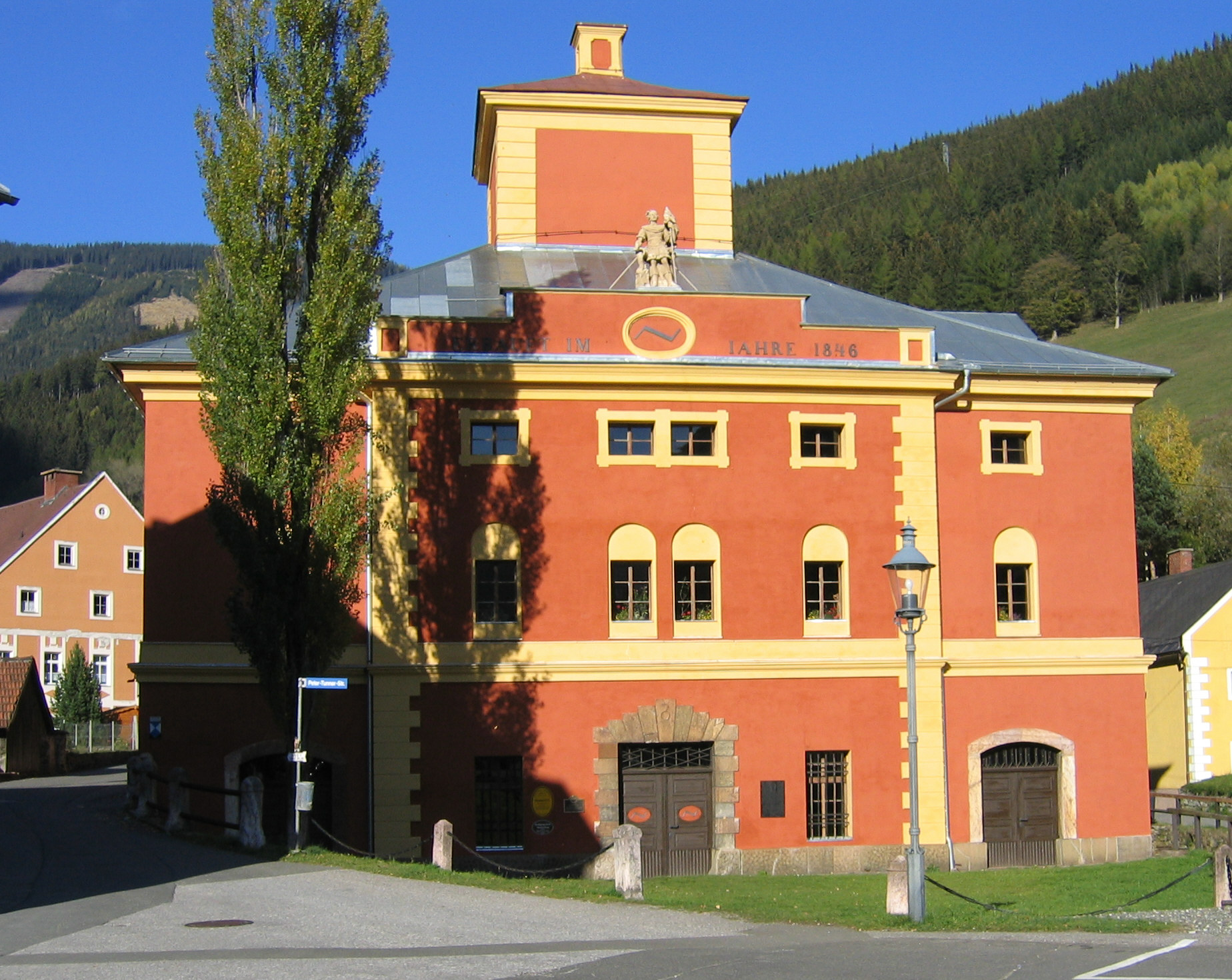 furnace-museum Radwerk IV